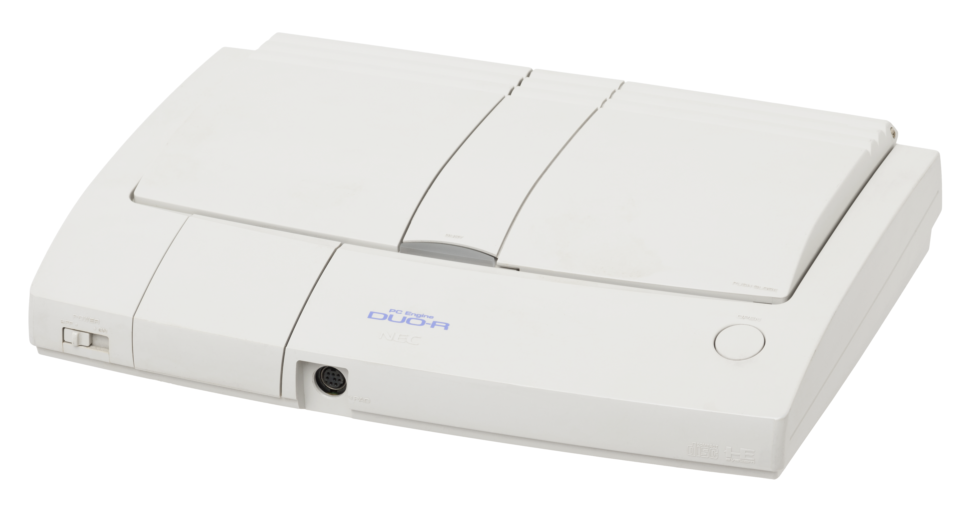 The PC Engine Duo R video game console. One of the many different versions of the PC Engine released in Japan.